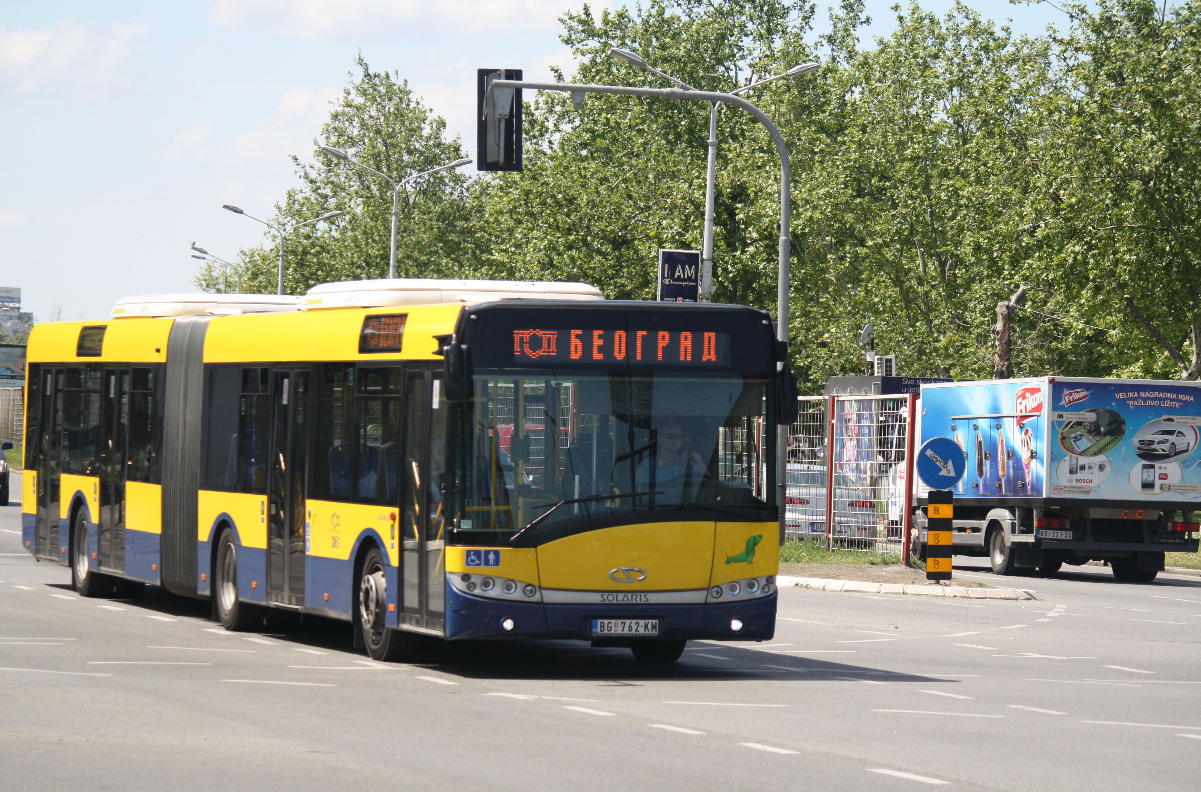 Solaris Urbino 18 articulated city bus of GSP Beograd.